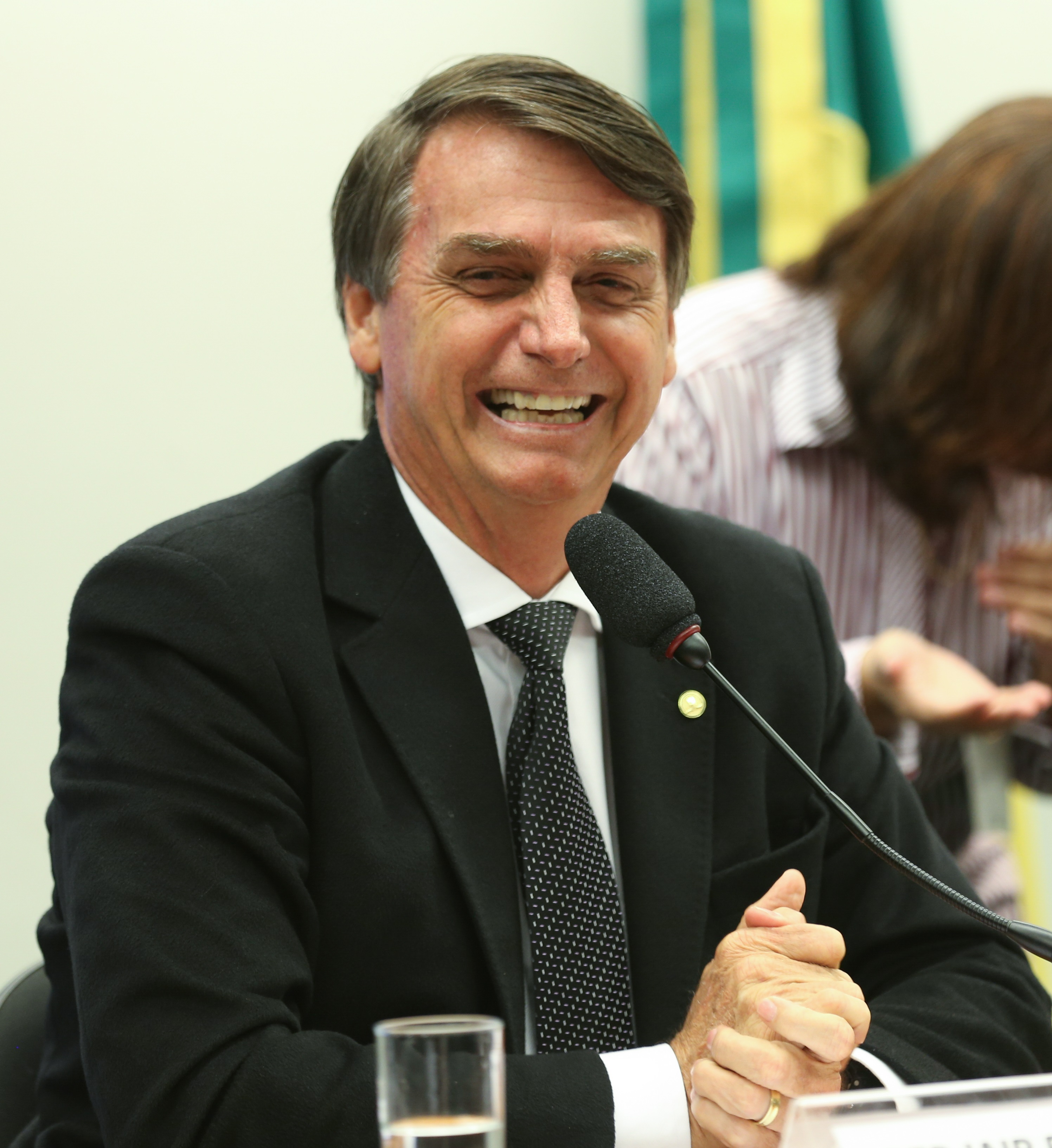 Federal Deputy Jair Bolsonaro in a public hearing at the Ethics Council of the Brazilian Chamber of Deputies.